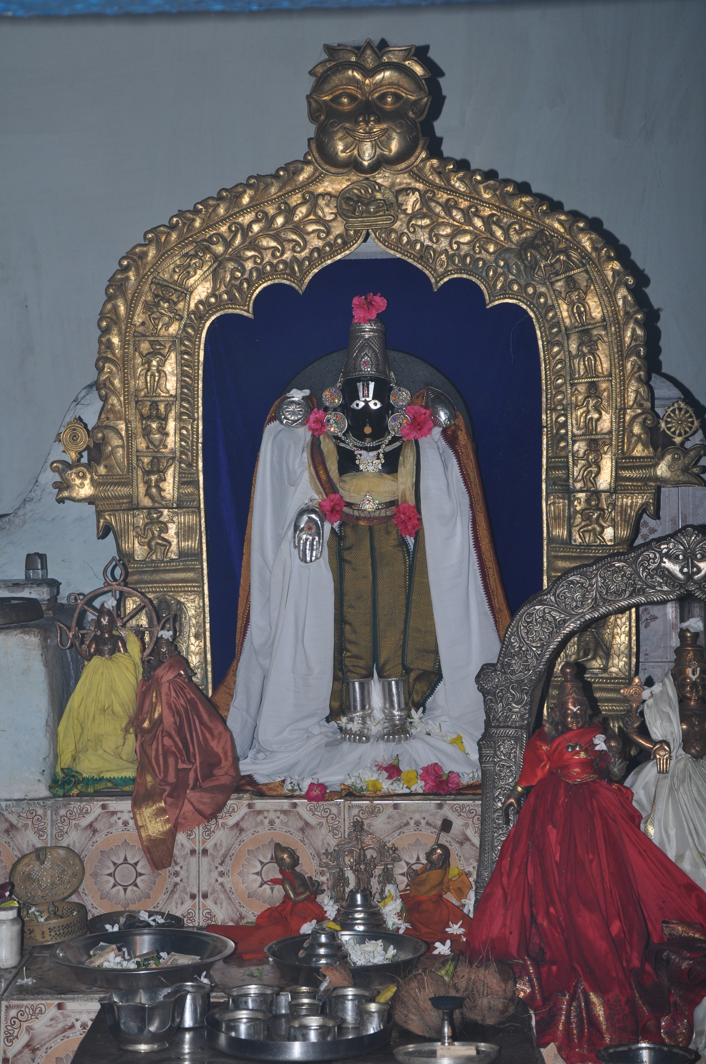 this is photograph of Lord Balaji in Sri Venkateswar Swamy temple, at Balijipeta taken by me.Phanibandaru (talk) 12:52, 26 February 2012 (UTC)